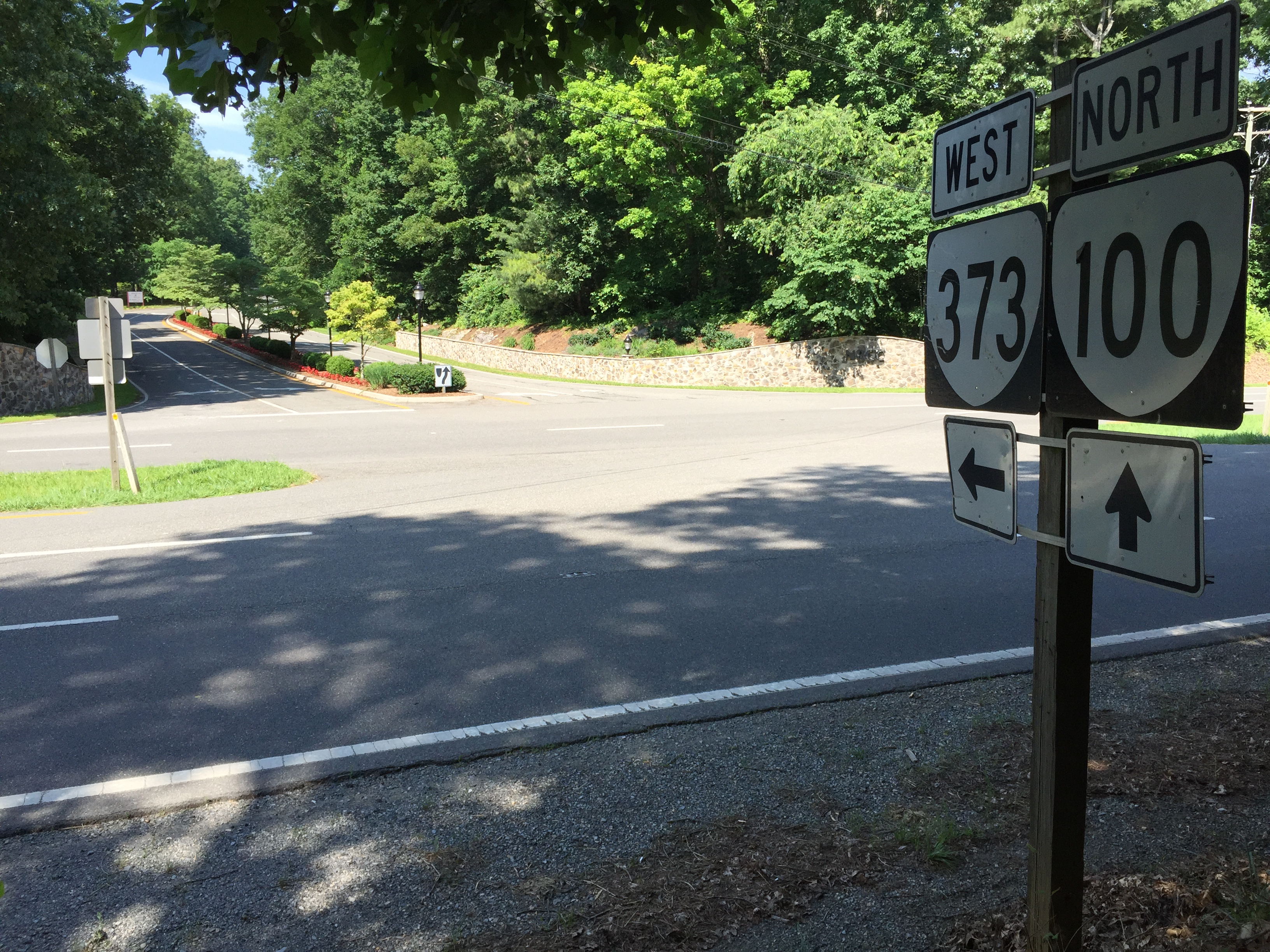 View west along Virginia State Route 373 (College Drive) at Virginia State Route 100 (Cleburne Boulevard) in Dublin, Pulaski County, Virginia